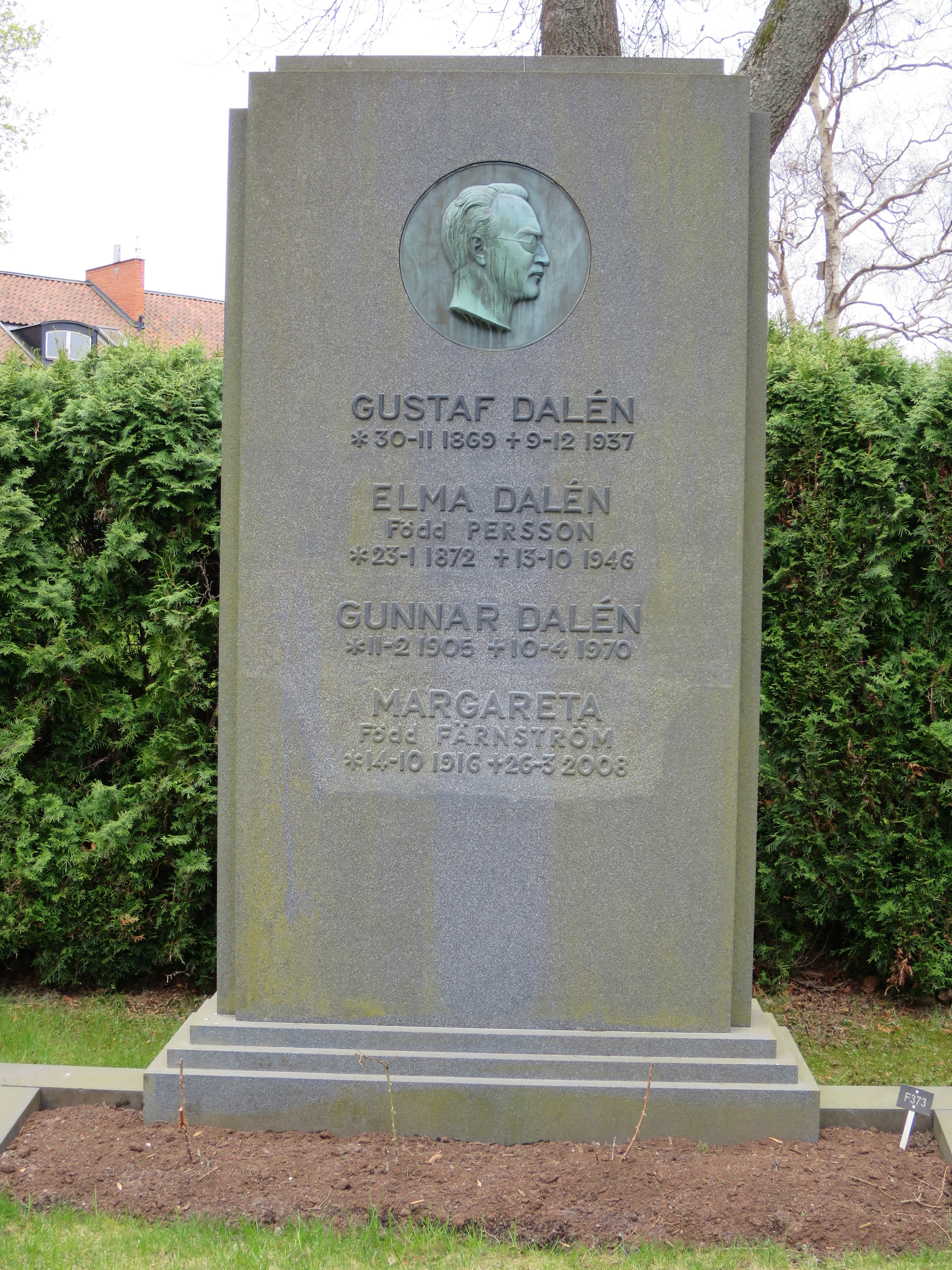 Gustaf Dalén's grave in Lidingö